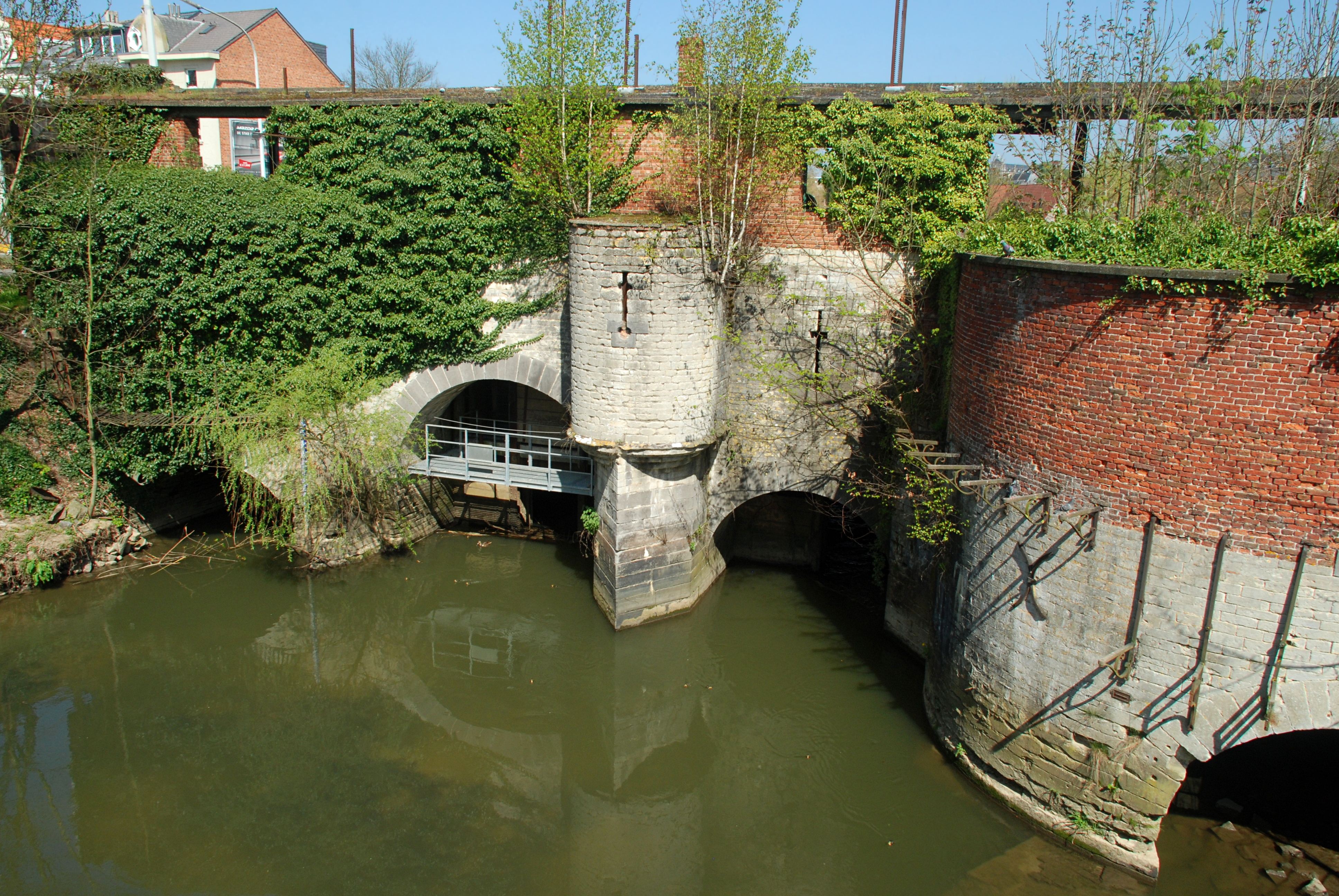 Belgium - Leuven - great lock